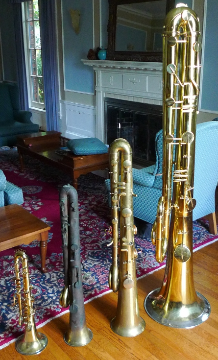 Complete family of ophicleides. From left to right: soprano in C by Robb Stewart, alto in E flat by Halari, bass in B flat by C. Sax, contrabass in E flat by Robb Stewart